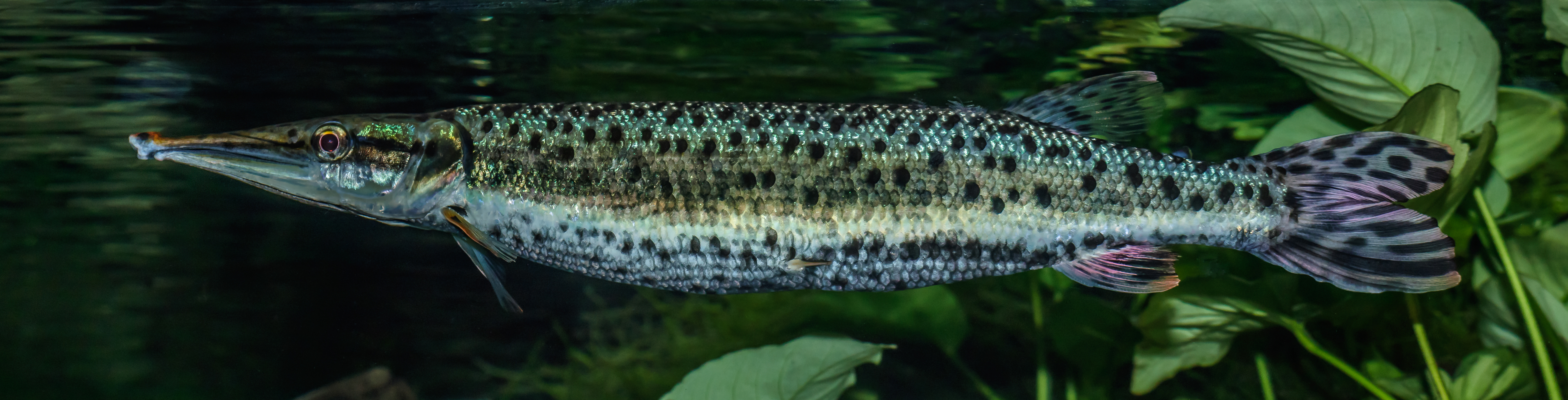 Boulengerella maculata (Valenciennes, 1850), Spotted pike-characin; Karlsruhe Zoo, Karlsruhe, Germany.